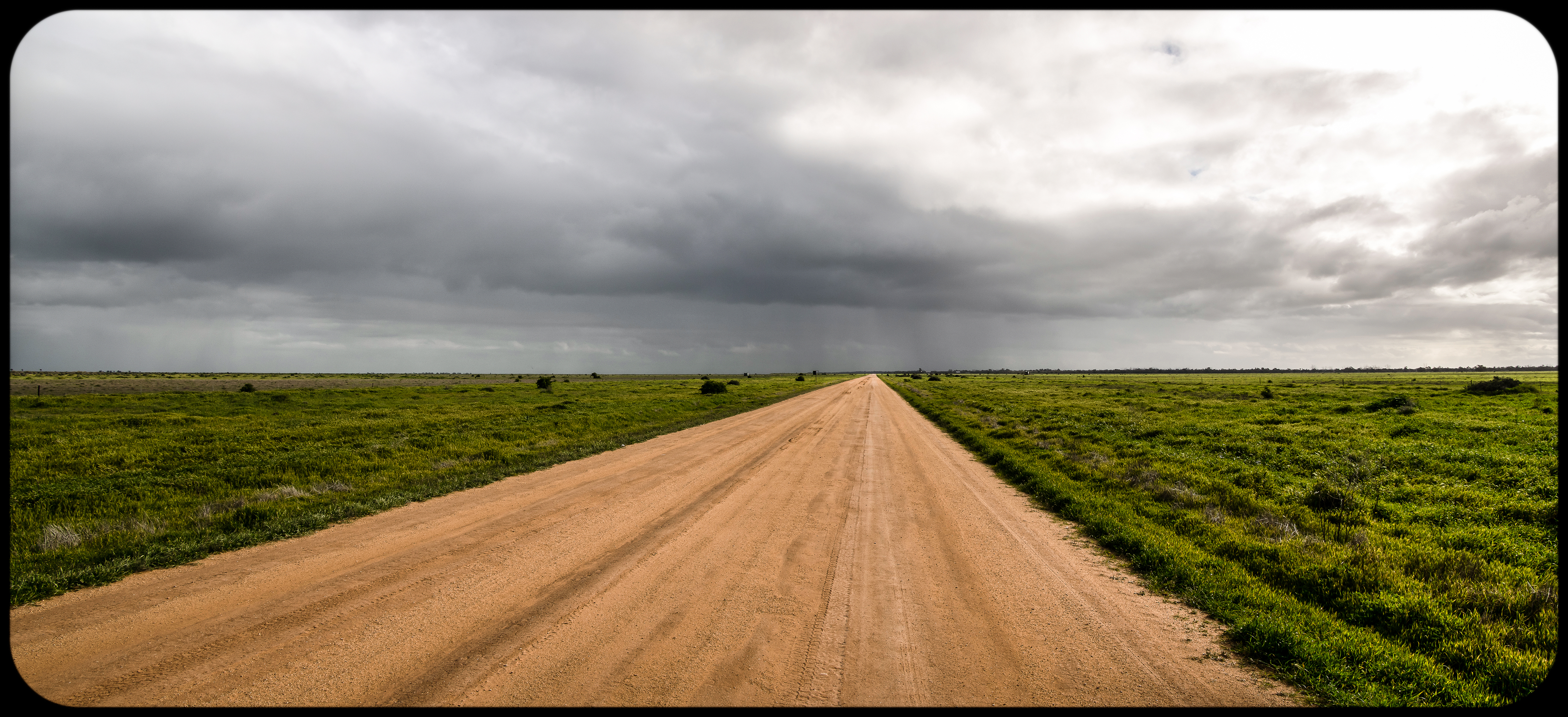 Near Booligal, New South Wales, Australia - 11th of August, 2016